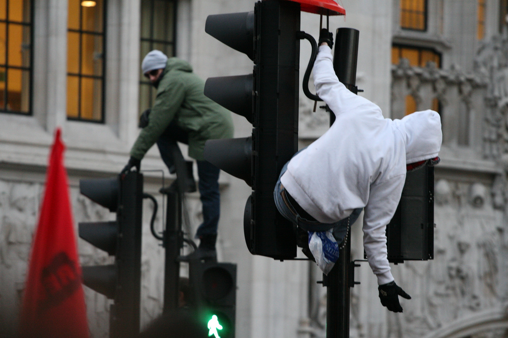 Protestors climb traffic lights in London